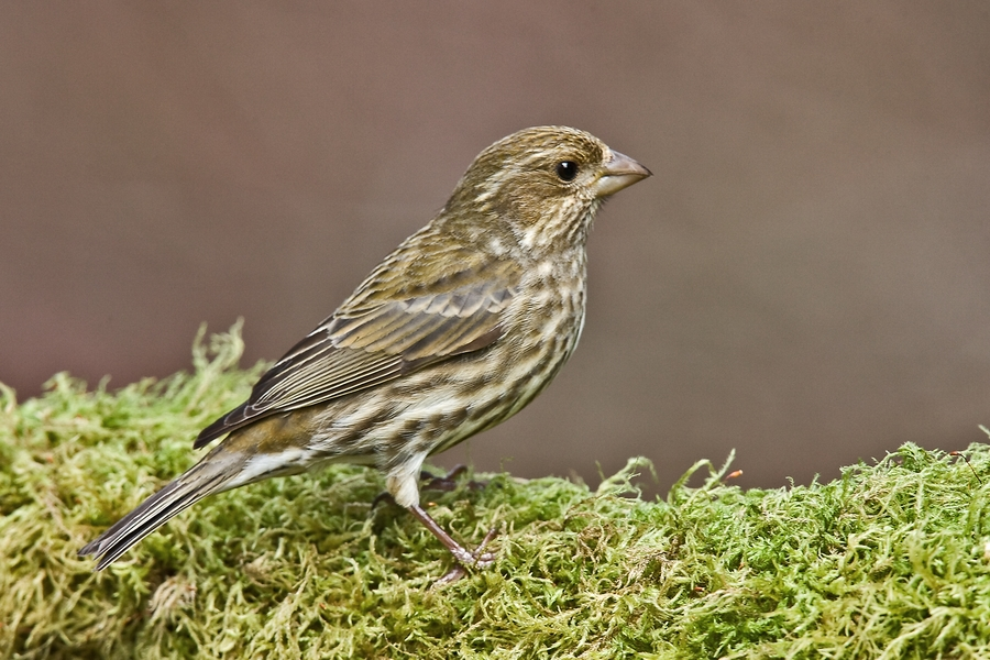 Carpodacus purpureus, female, Black Creek, southern Vancouver Island